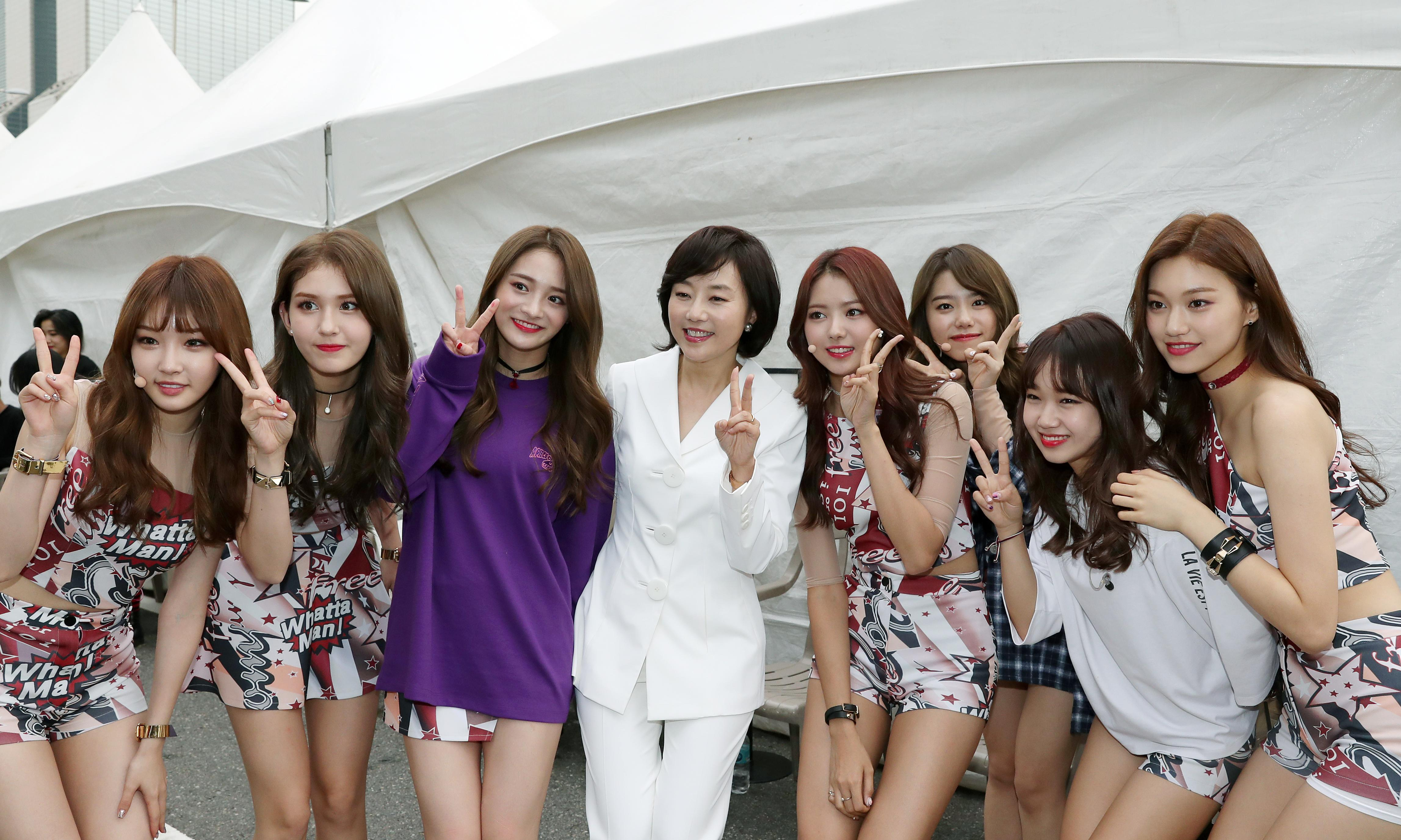 Korea Sale Festa Opening Ceremony I.O.I September 30, 2016 Yeongdongdae-ro, Gangnam-gu, Seoul Ministry of Culture, Sports and Tourism Korean Culture and Information Service ( Official Photographer : Jeon Han